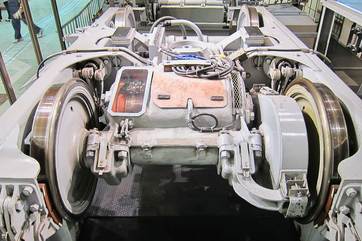 Nose-susupention drive for TRT type 1700 EMU at Tokyo Metro Museum.